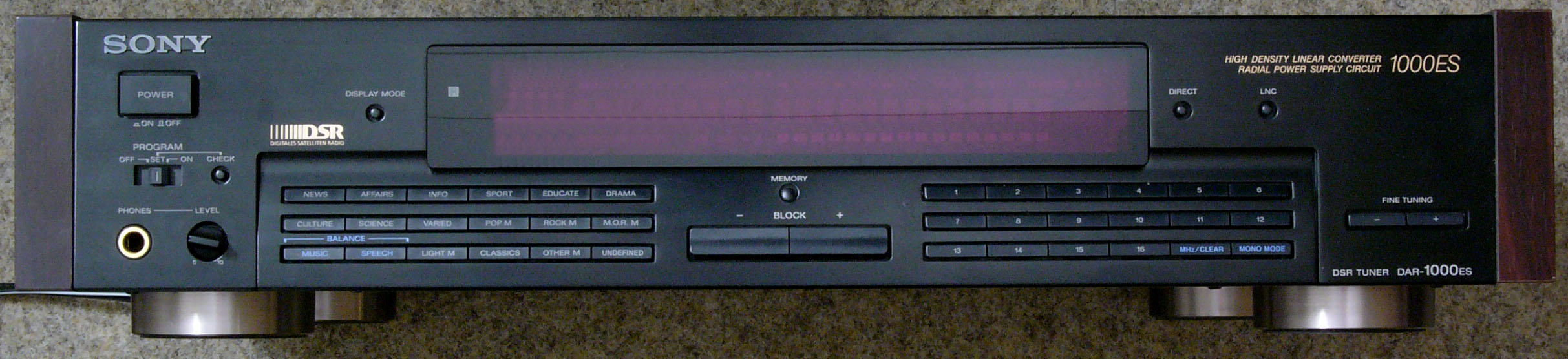 Satellite radio (Sony 1000ES)